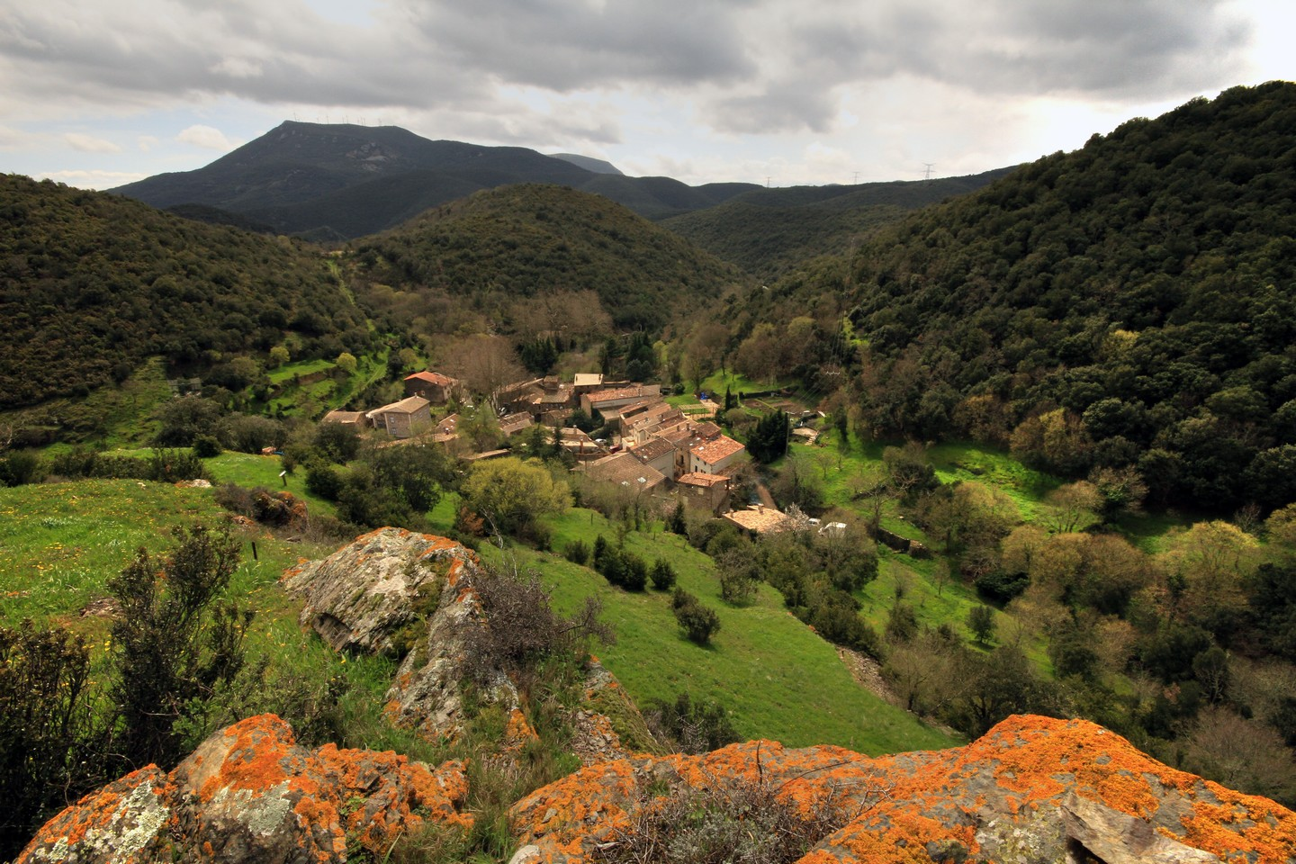 Village of Palairac in the High Corbières